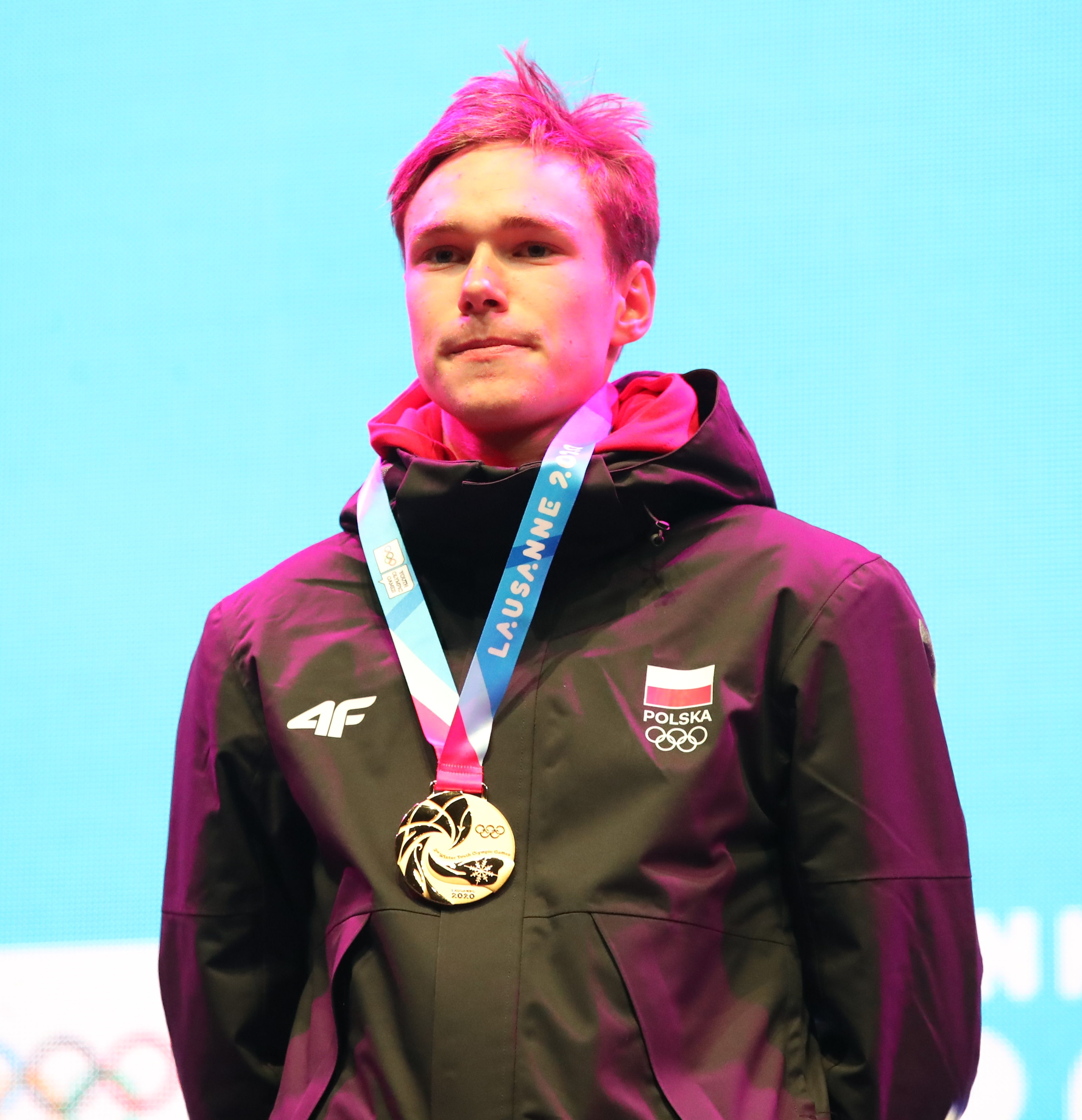 Medal Ceremony Day 5, 2020 Winter Youth Olympics in Lausanne